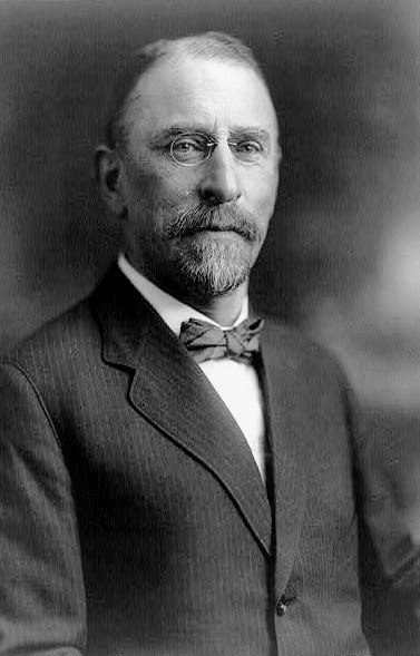 Photograph of Henry Morgenthau, Sr. The copyright on this work has expired. The image was cropped and the contrast/brightness changed in Photoshop.